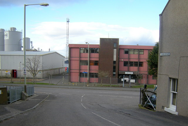 Usan Road, Ferryden approaching its junction with Southesk Place and Brownlow Place Looking north.